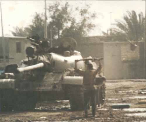 An Iraqi government tank destroyed by rebels during the 1991 uprisings in Iraq.